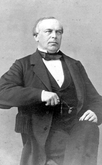 A. A. Waldenström, mayor of Karlstad and member of the Swedish parliament in 1865-1866.